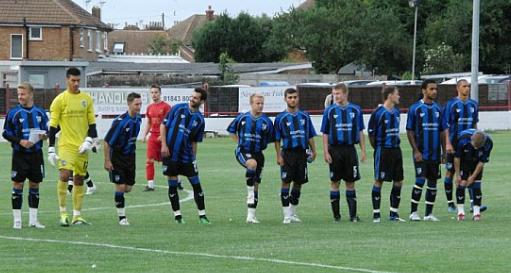 Gillingham F.C. team before the match against Ramsgate F.C. on 13 July 2011. I took the picture myself